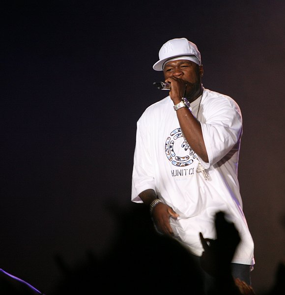 Photo by Rikard Westman